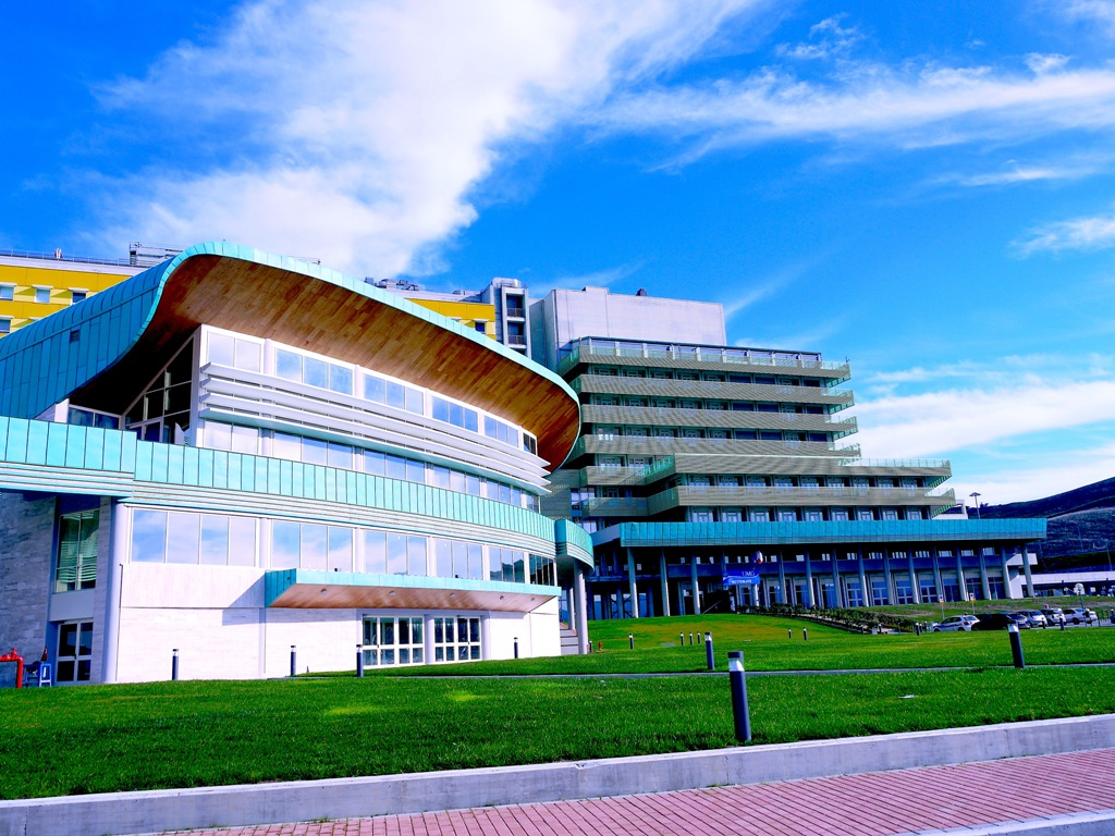 Magna Graecia University of Catanzaro